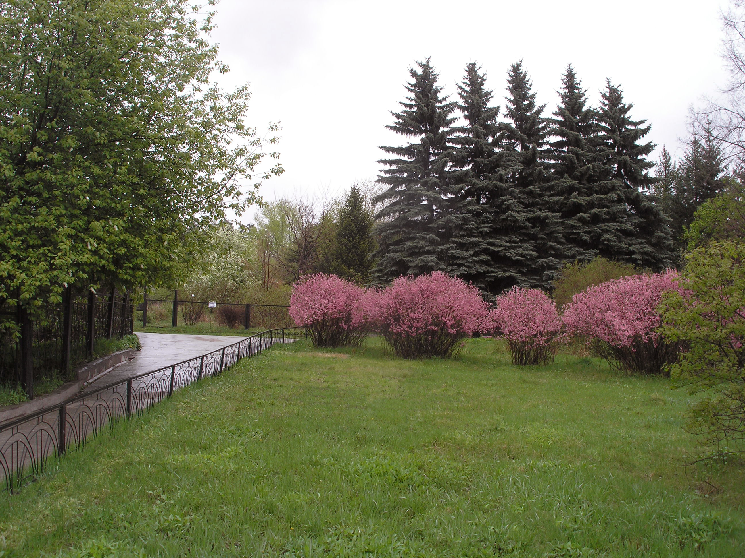 Botanic Garden of Irkutsk State University in spring. Bright pink flowering bushes - a relic siberian plant Amygdalus pedunculata Pallas. at the backdrop blue forms of Picea pungens Engelm